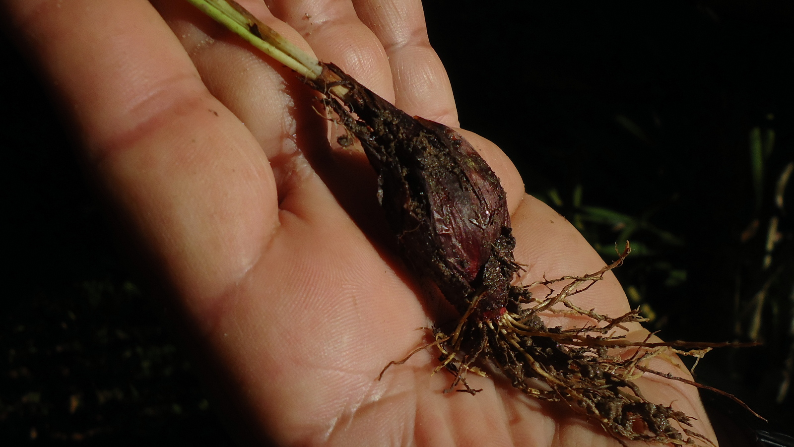 Eleutherine bulbosa Urb.